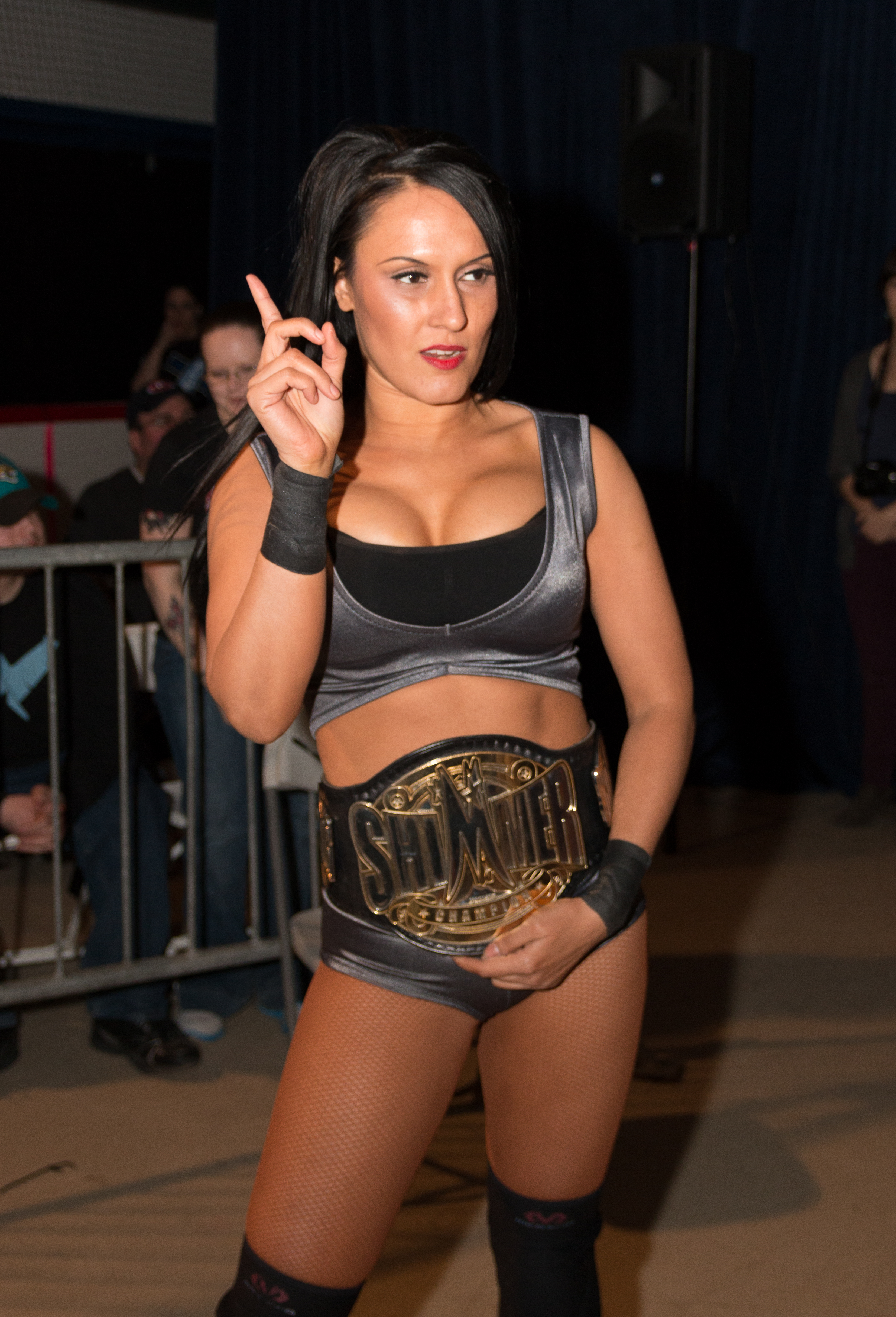 Cheerleader Melissa with the Shimmer championship belt, making her ring entrance at nCw Femme Fatales XIV